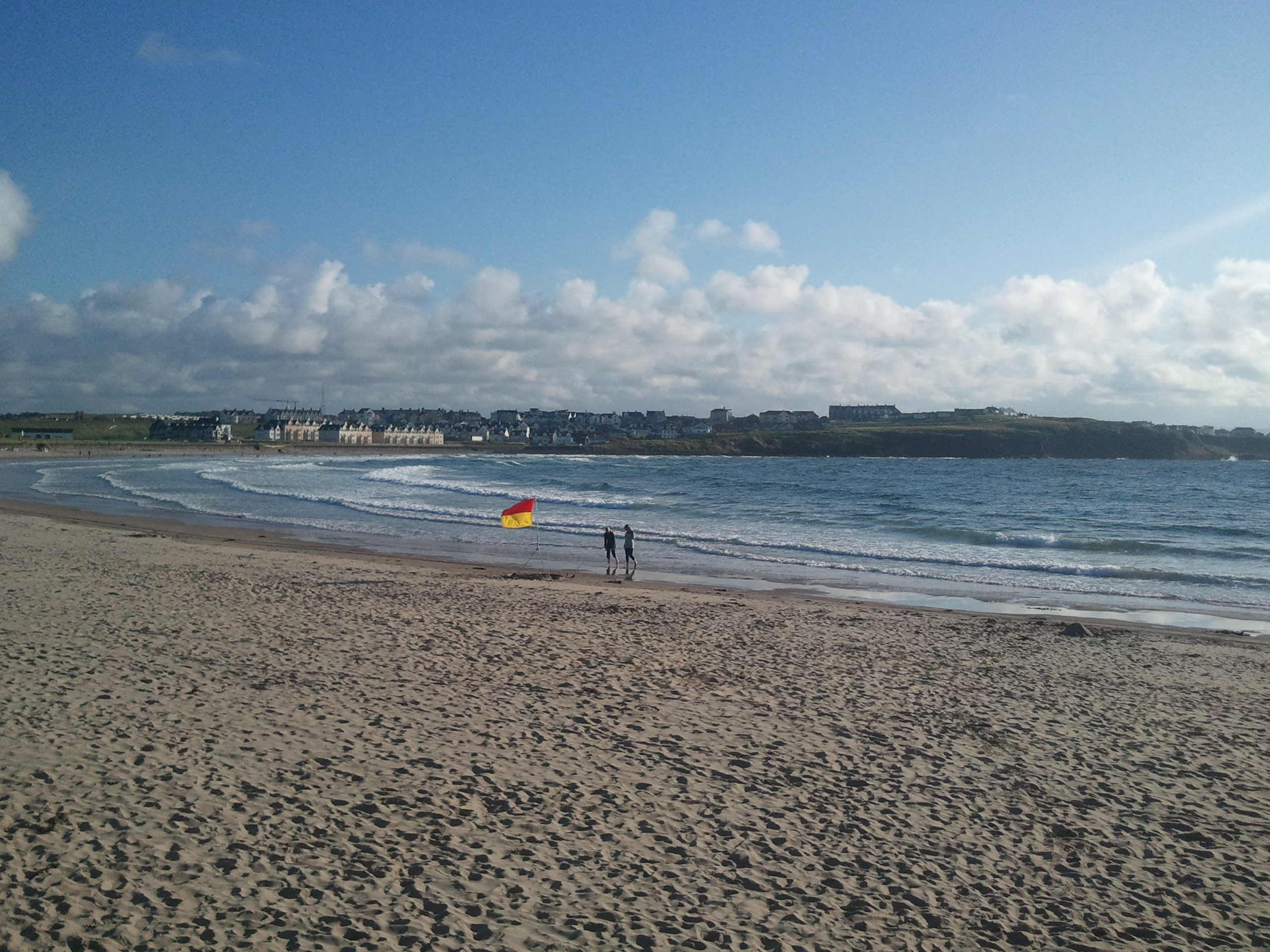 The "East Strand" beach in Portrush, Northern Ireland.